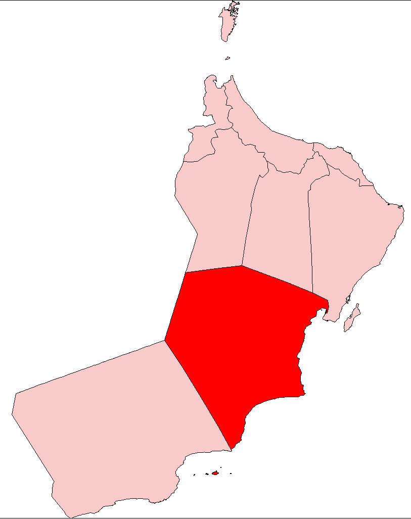 Map of al-Wusta region, Oman